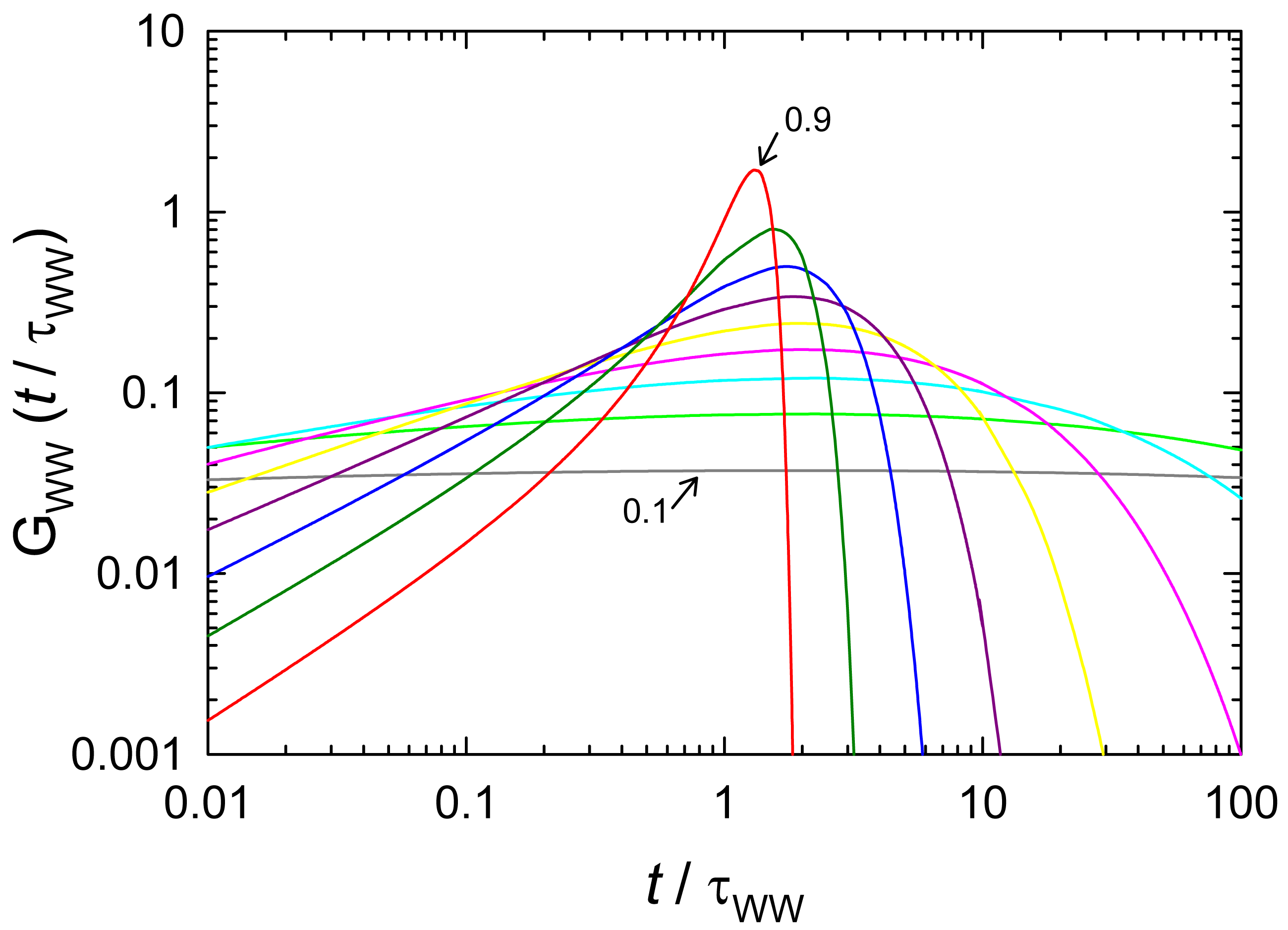 Plot of the Kohlrausch-Williams-Watts distribution function